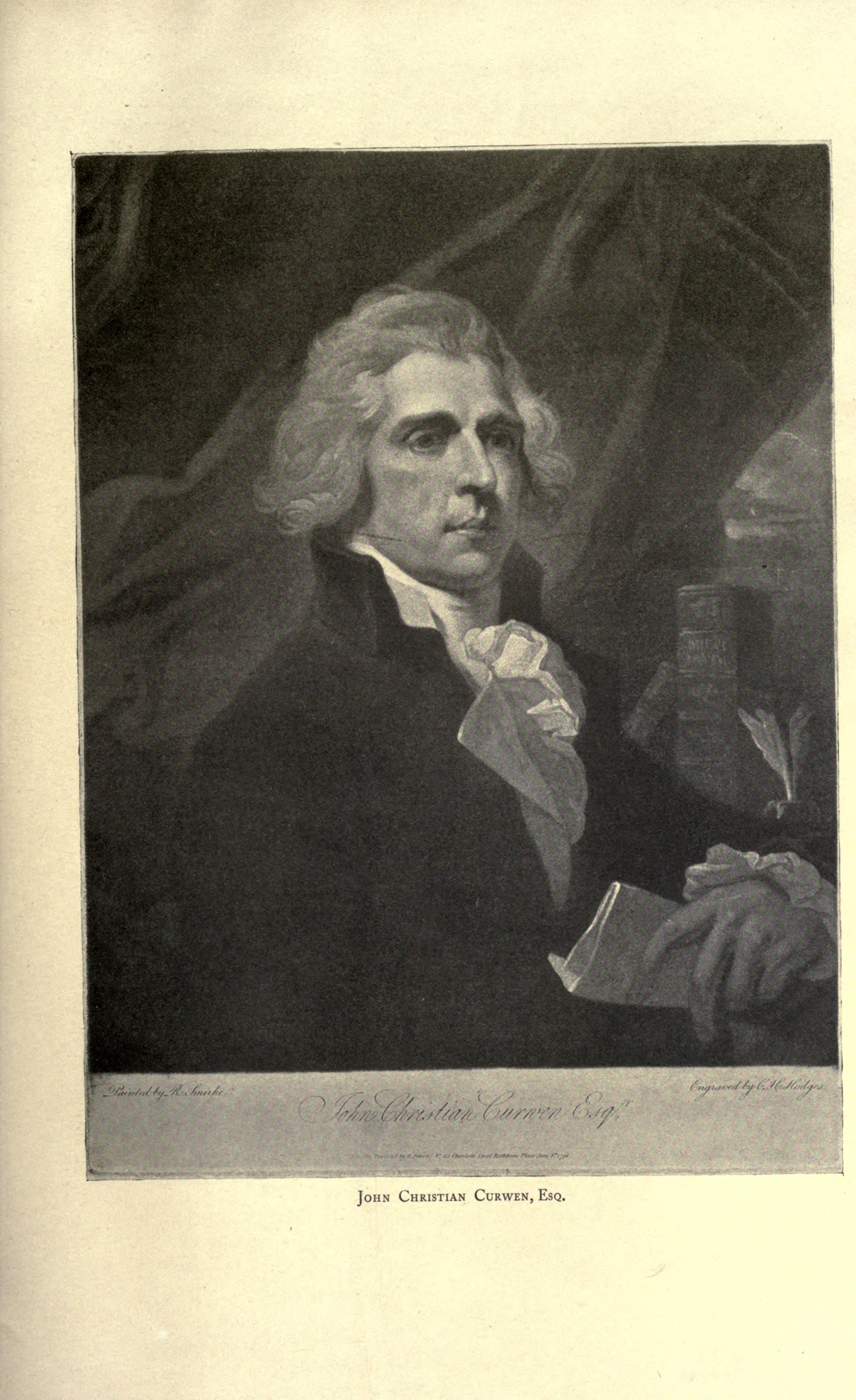 The Victoria history of the county of Cumberland. [Edited by James Wilson.]